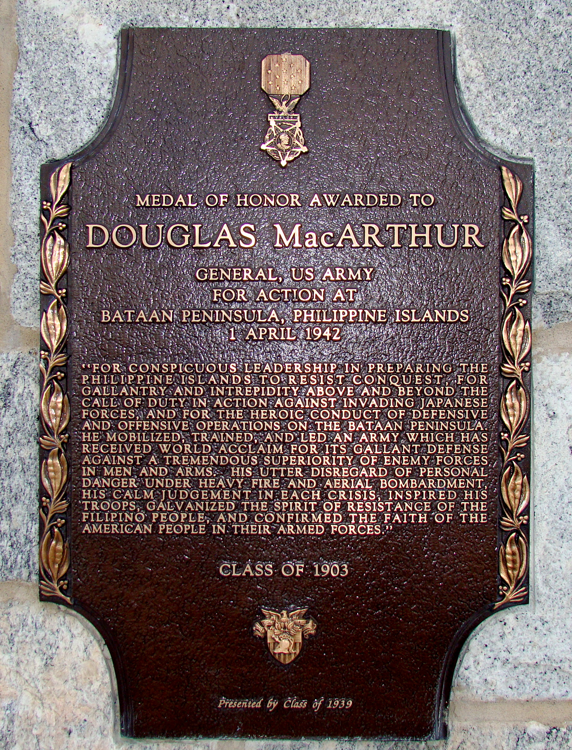 Medal of Honor Plaque for Douglas MacArthur affixed to MacArthur barracks, West Point, NY